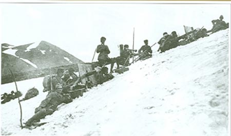 An Ottoman machinegun troop at the earstern front during the Battle of Sarıkamış 1915